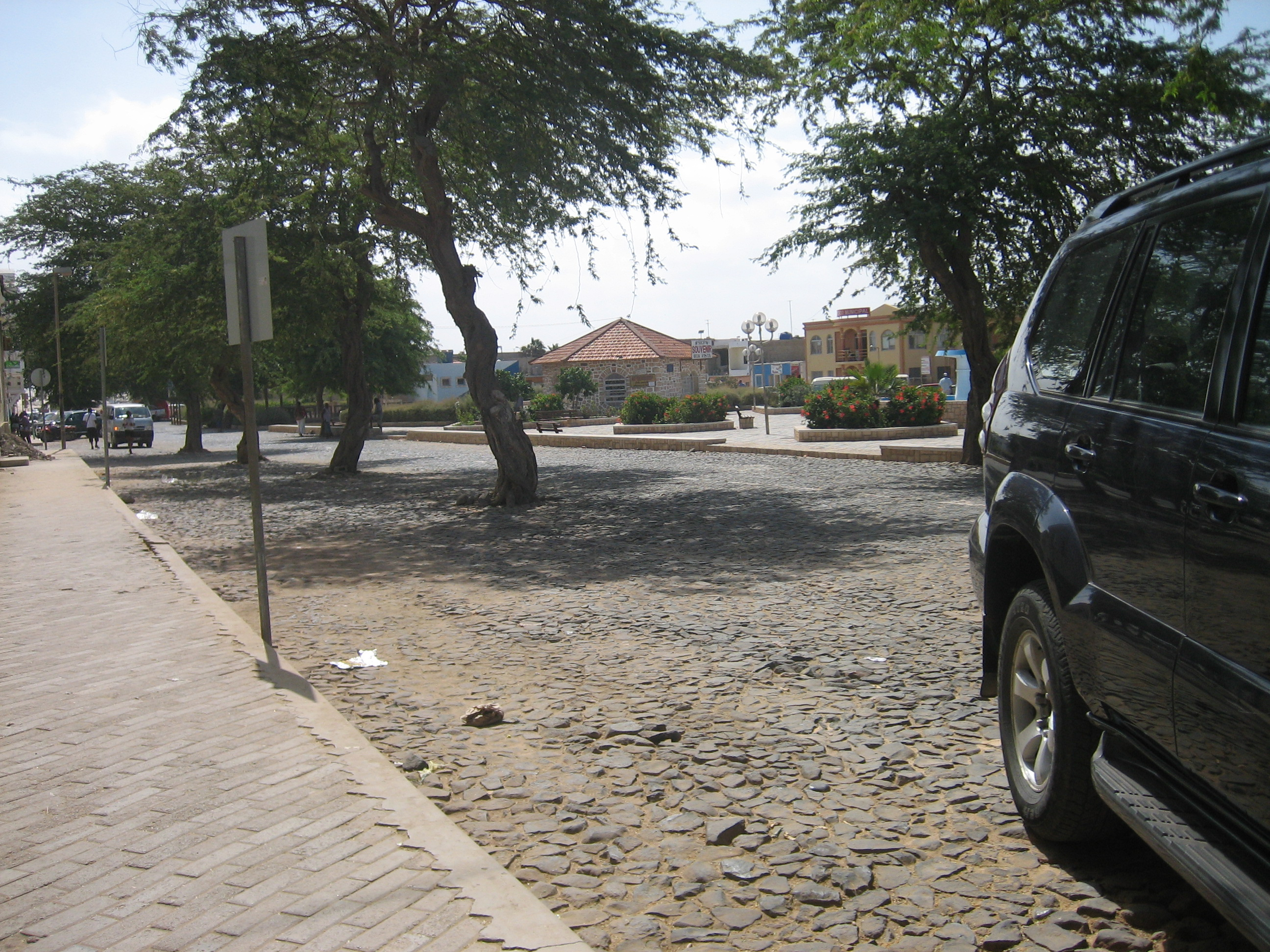 The historic town center of Sal Rei with the Praça de Santa Isabel